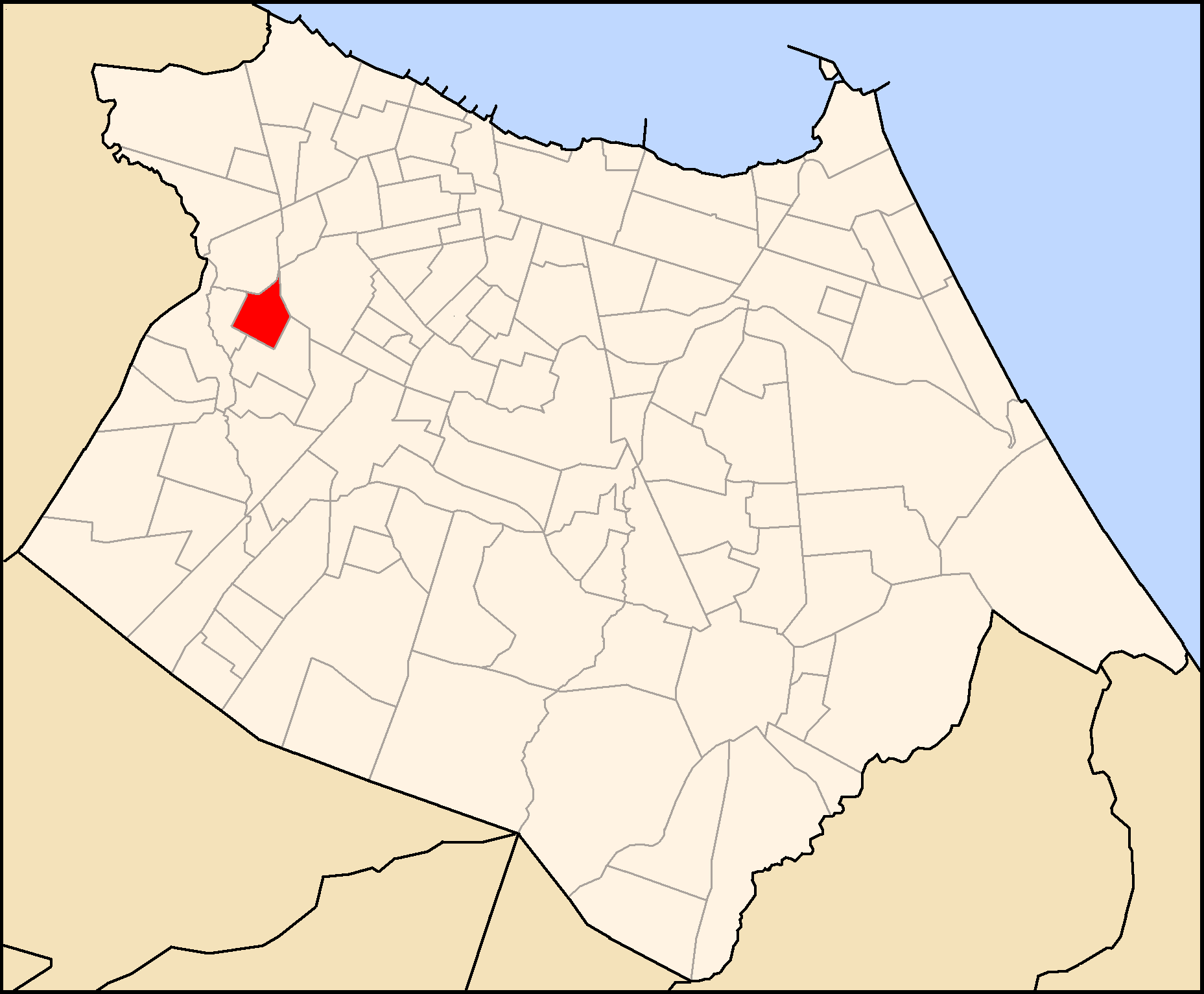 Fortaleza